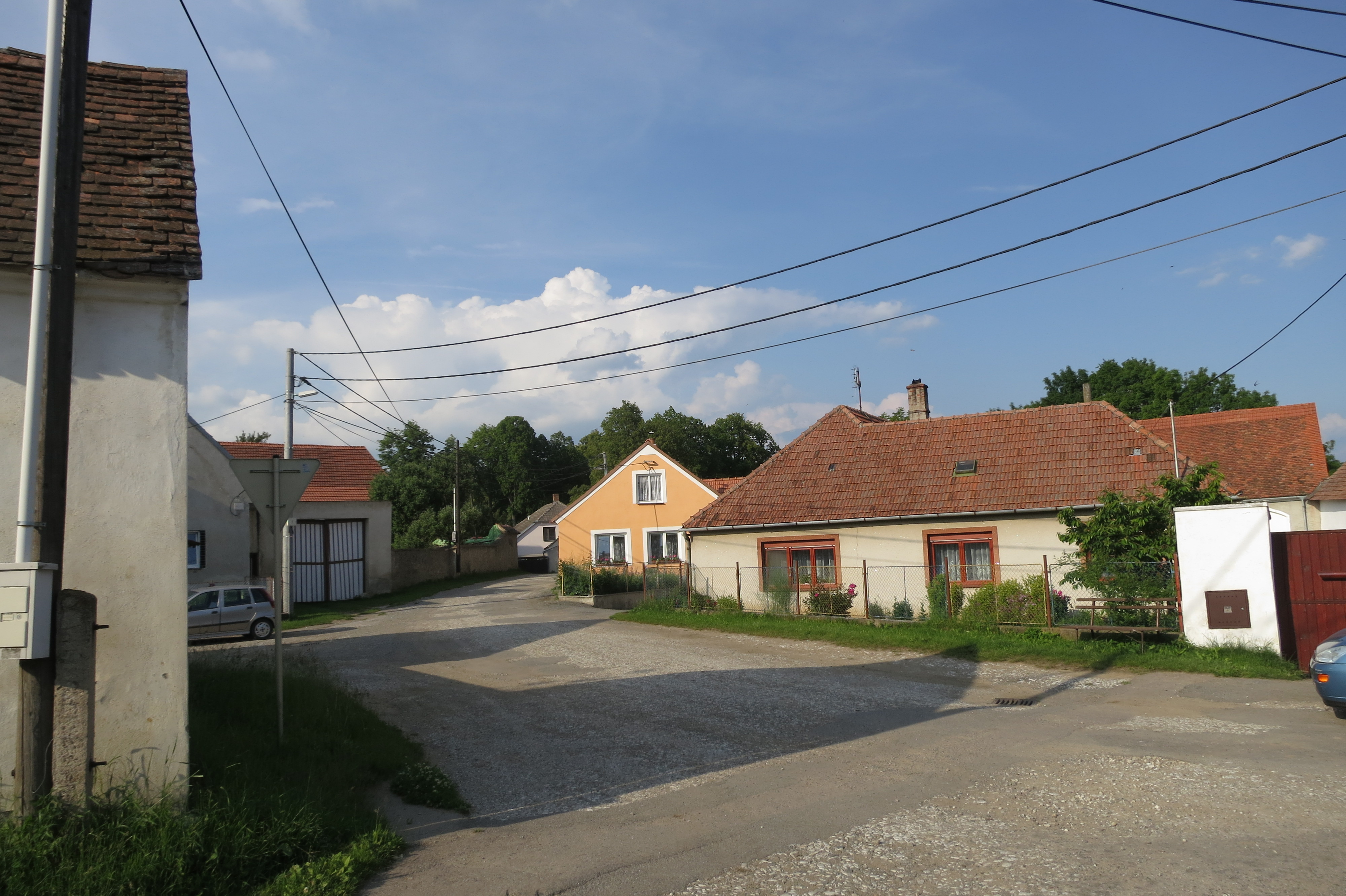 Center of Louka, Jemnice, Třebíč District.